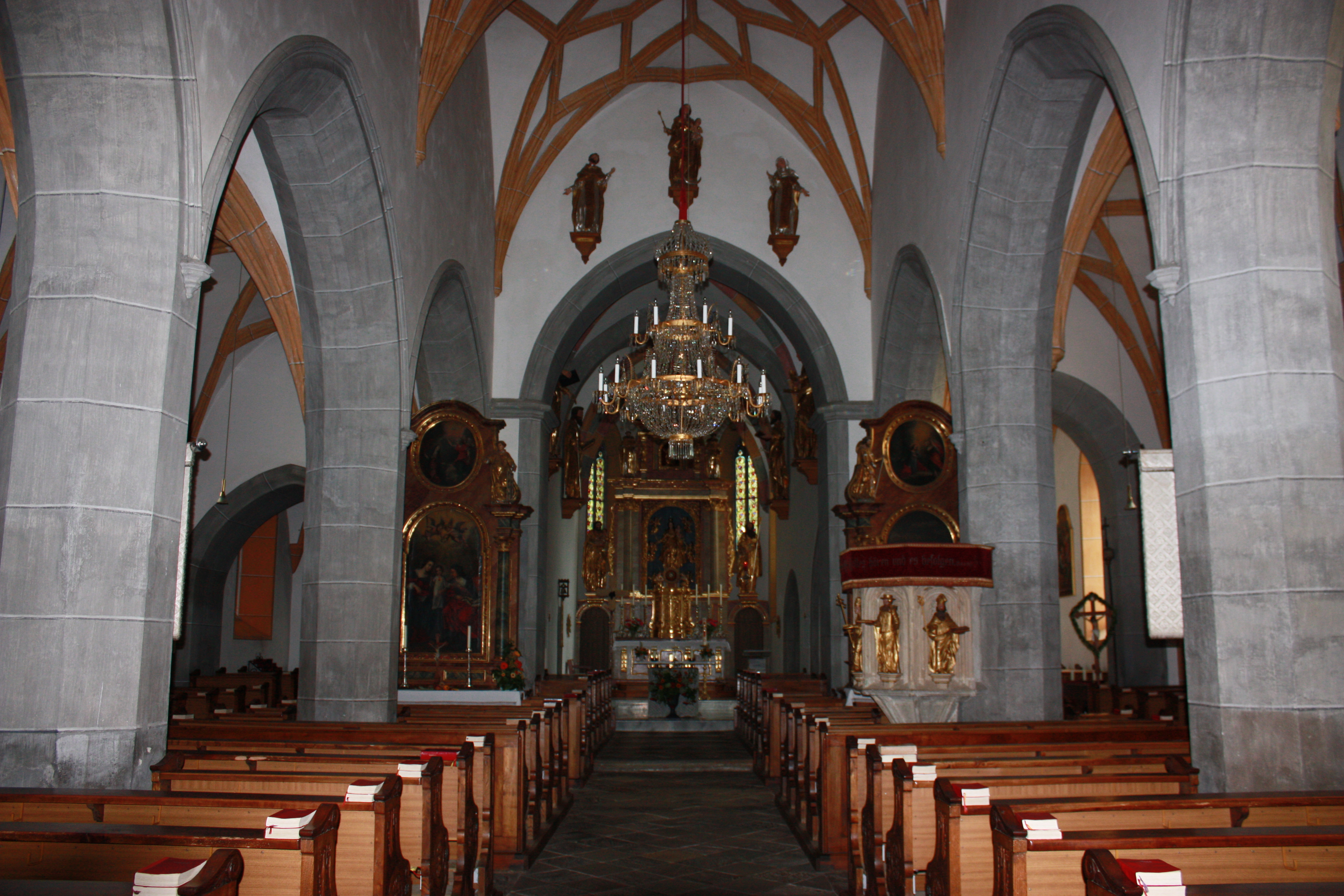 Parish church Assumption of Mary - Interior Locality: Sankt Marein im Lavanttal Community:Wolfsberg